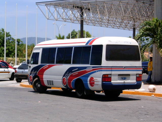 This is a Toyota Coaster in the Aeropuerto Internacional del Caribe Santiago Mariño.